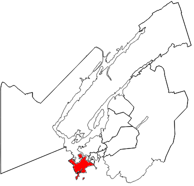 The riding of Saint John Lancaster in relation to other electoral districts in Greater Saint John.